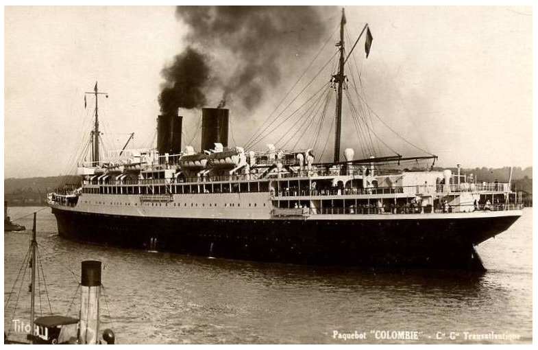 USAHS Aleda E. Lutz (Former French Liner SS Colombie)